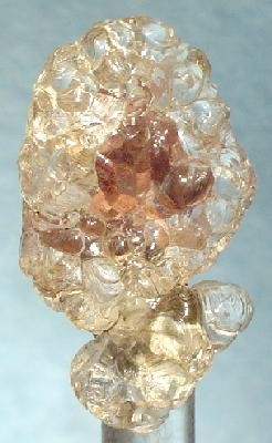 Opal (Var.: Opal-AN) Locality: Squaretop Mountain, Kaimkillenbun, Wambo Shire, Darling Downs-South West Region, Queensland, Australia (Locality at ) Size: 3.0 x 1.8 x 1.4 cm. A cute, nicely shaped toenail of colorless, globular, jelly-like hyalite opal from an UNCOMMON Australian locality - Squaretop Mountain, Dalby (Kiamkillenbun ?), Queensland. A spot of brown matrix on the back adds character. Moderate lime-green fluorescence. Ex. Sam Nasser Collection.